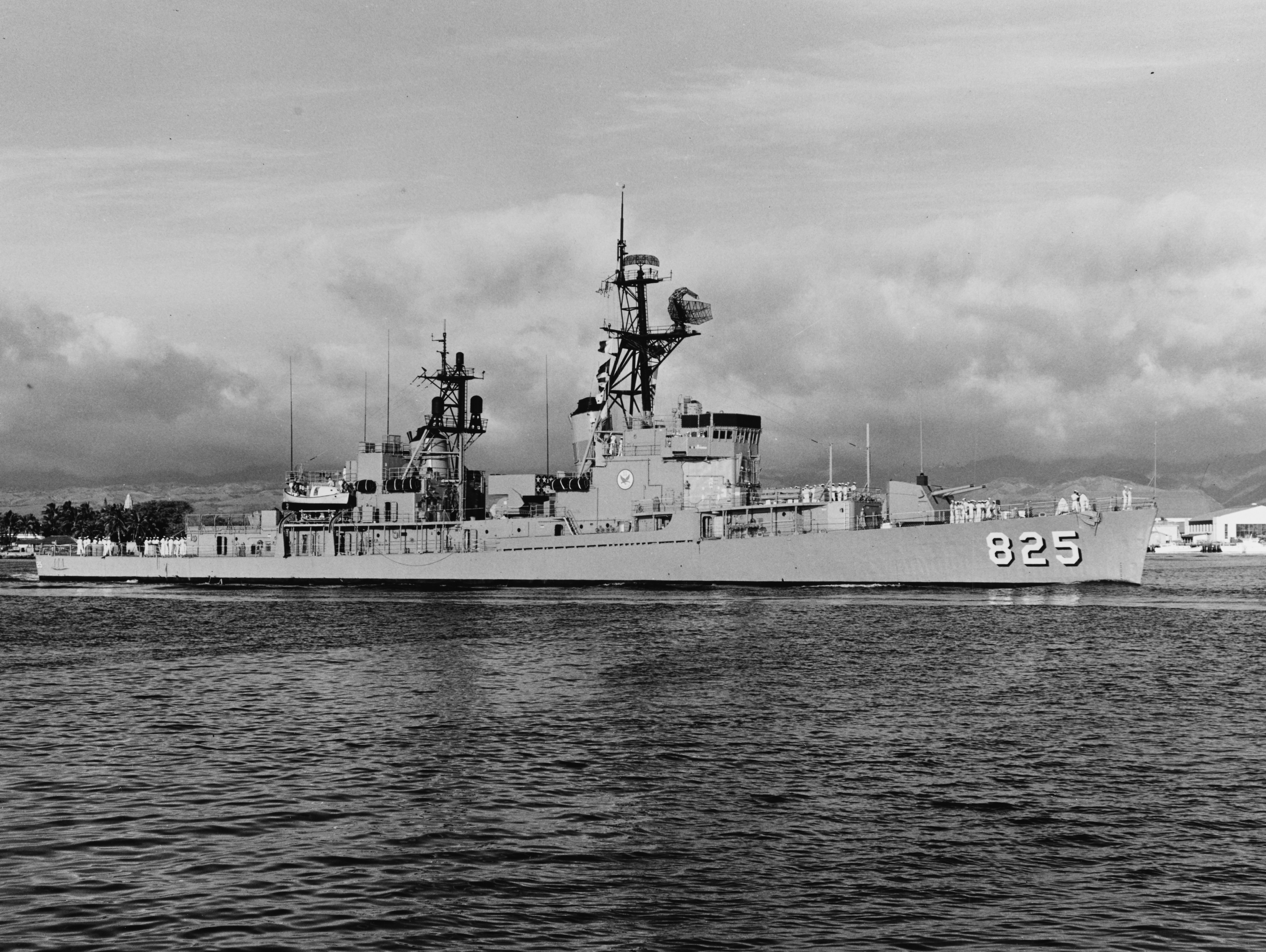 The U.S. Navy destroyer USS Carpenter (DD-825) leaving Pearl Harbor, Hawaii (USA), on 27 December 1965, following her FRAM I-modernisation.